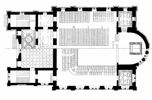 Synagoue in Czernowitz, built in 1877 par architect Zachariewicz. Drawing of the first and second floor